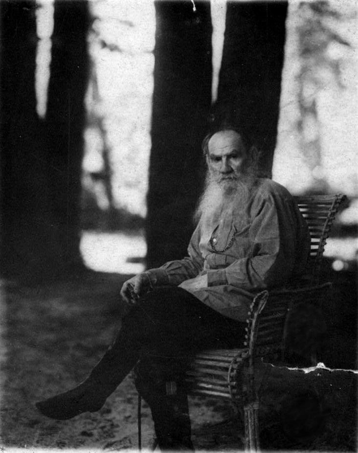 CREATED/PUBLISHED: 1908 May; CREATOR: Prokudin-Gorskii, Sergei Mikhailovich, 1863-1944, photographer. REPOSITORY: Library of Congress Prints and Photographs Division Washington, D.C. 20540 USA.